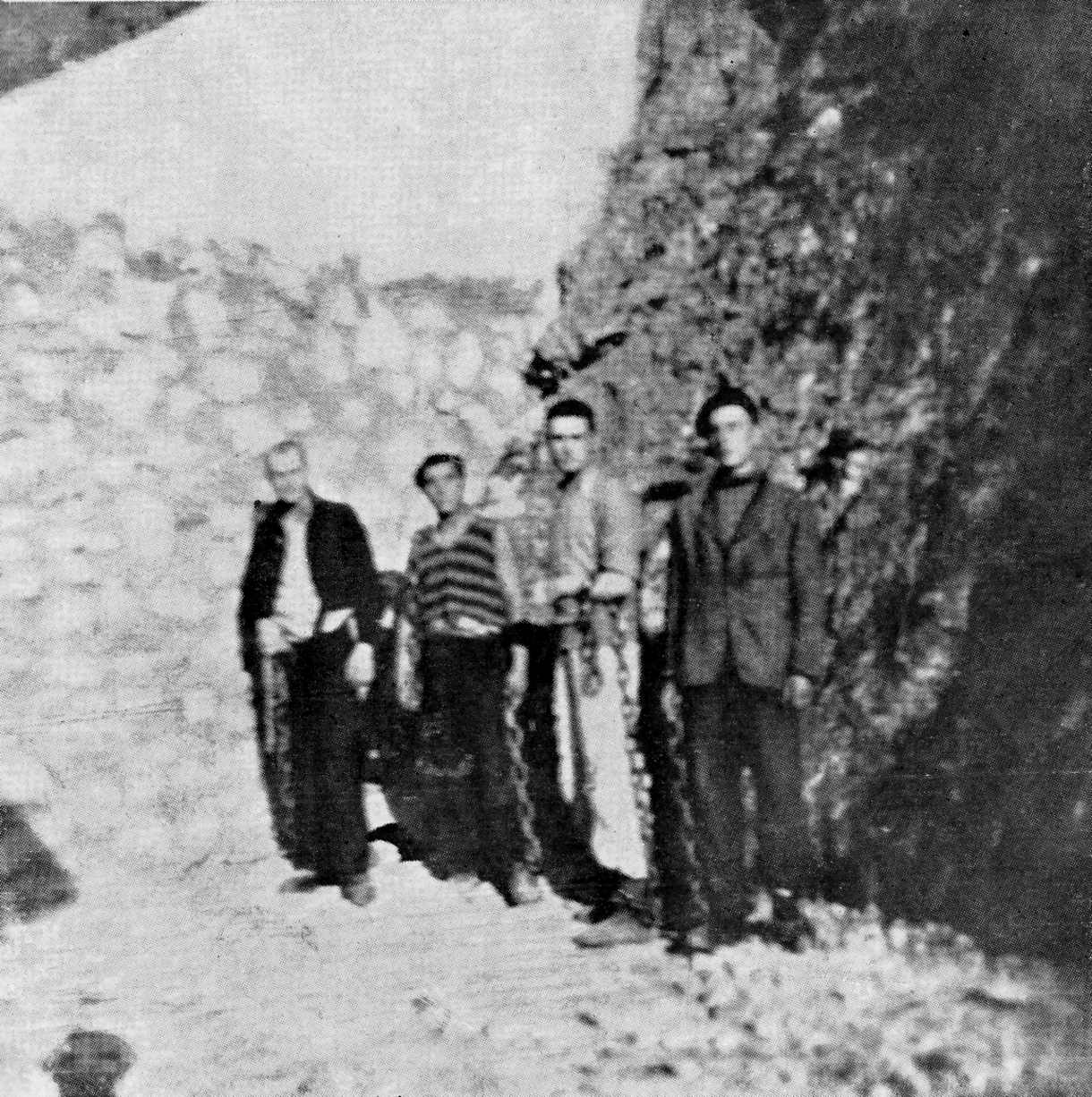 Polish prisoners in shackles in the "Liban" prison camp.